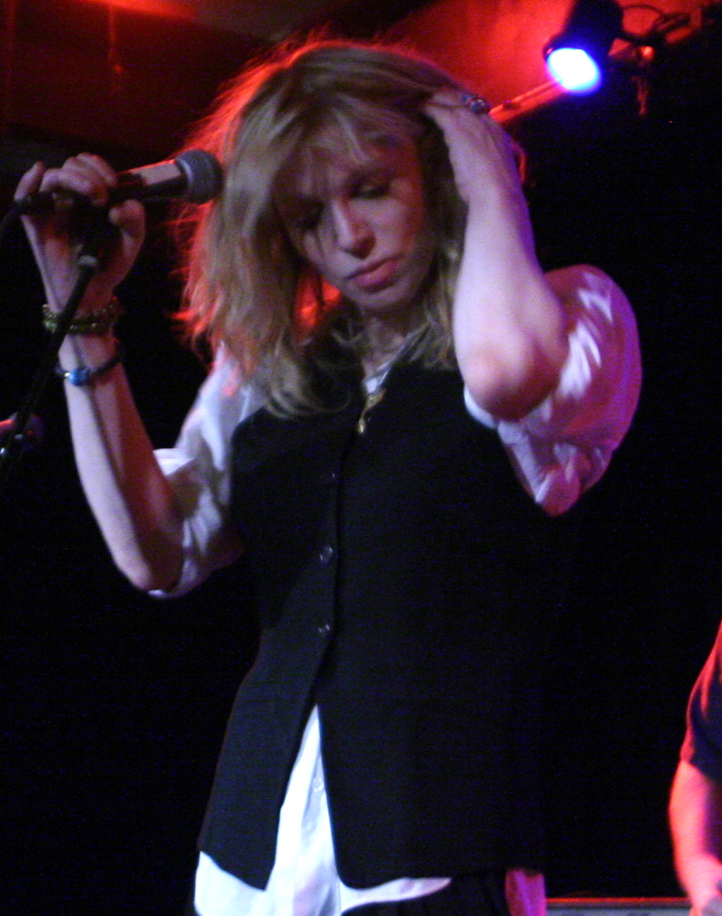 Courtney Love in 2012